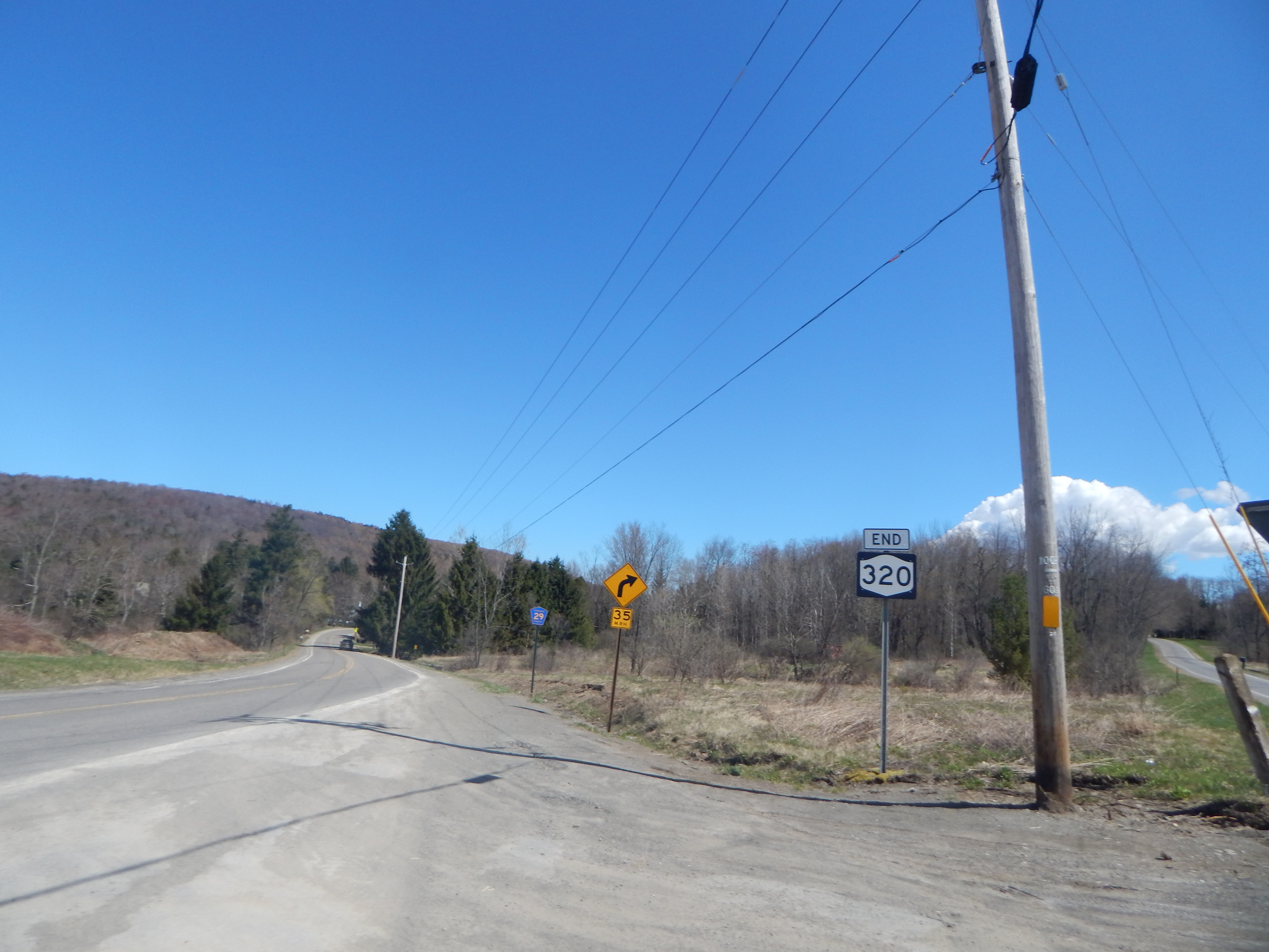 New York State Route 320 at the junction with Tiffany Road in North Norwich, New York.